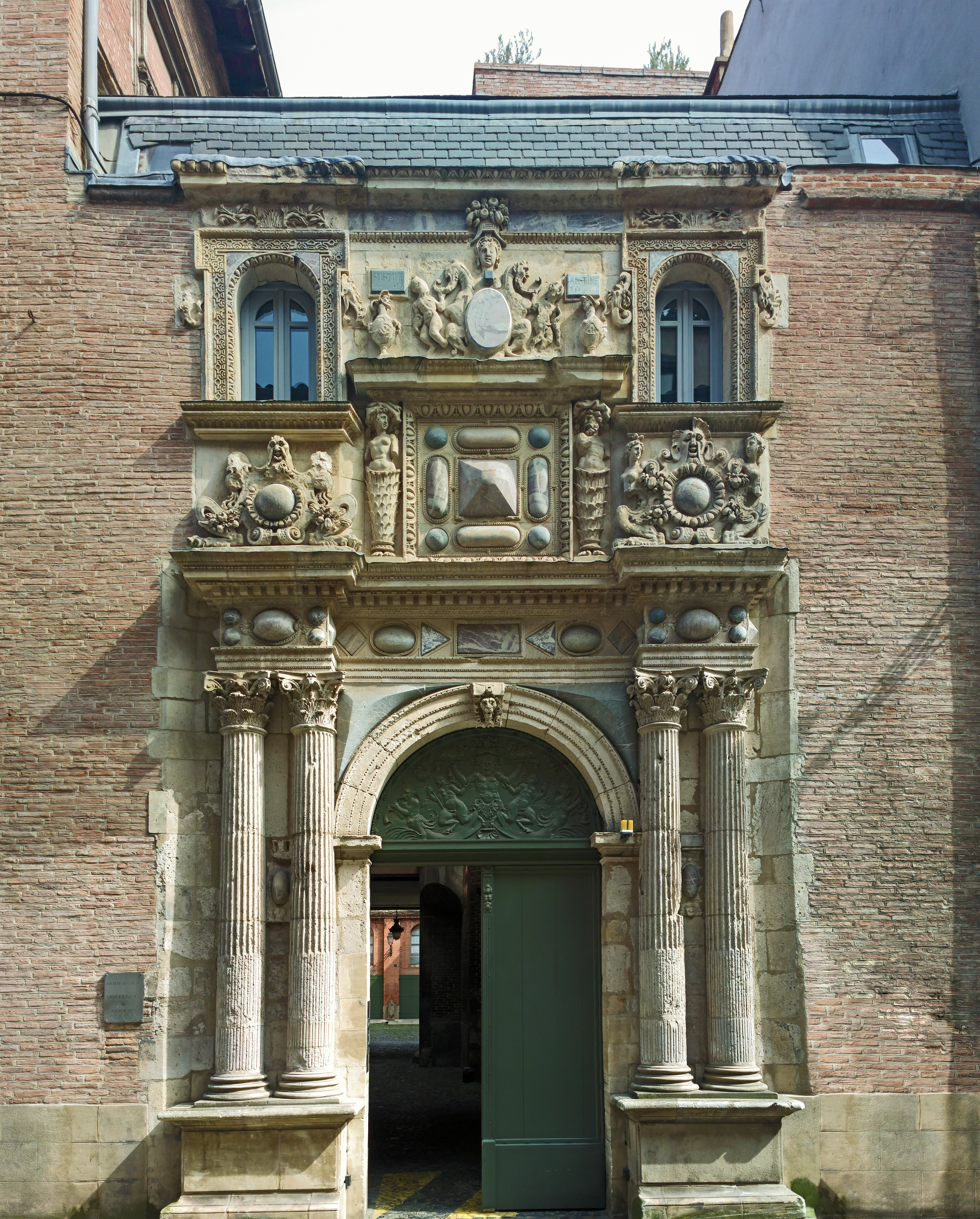 Hôtel Felzins in Toulouse (16th century) – Porch on rue de la Dalbade.